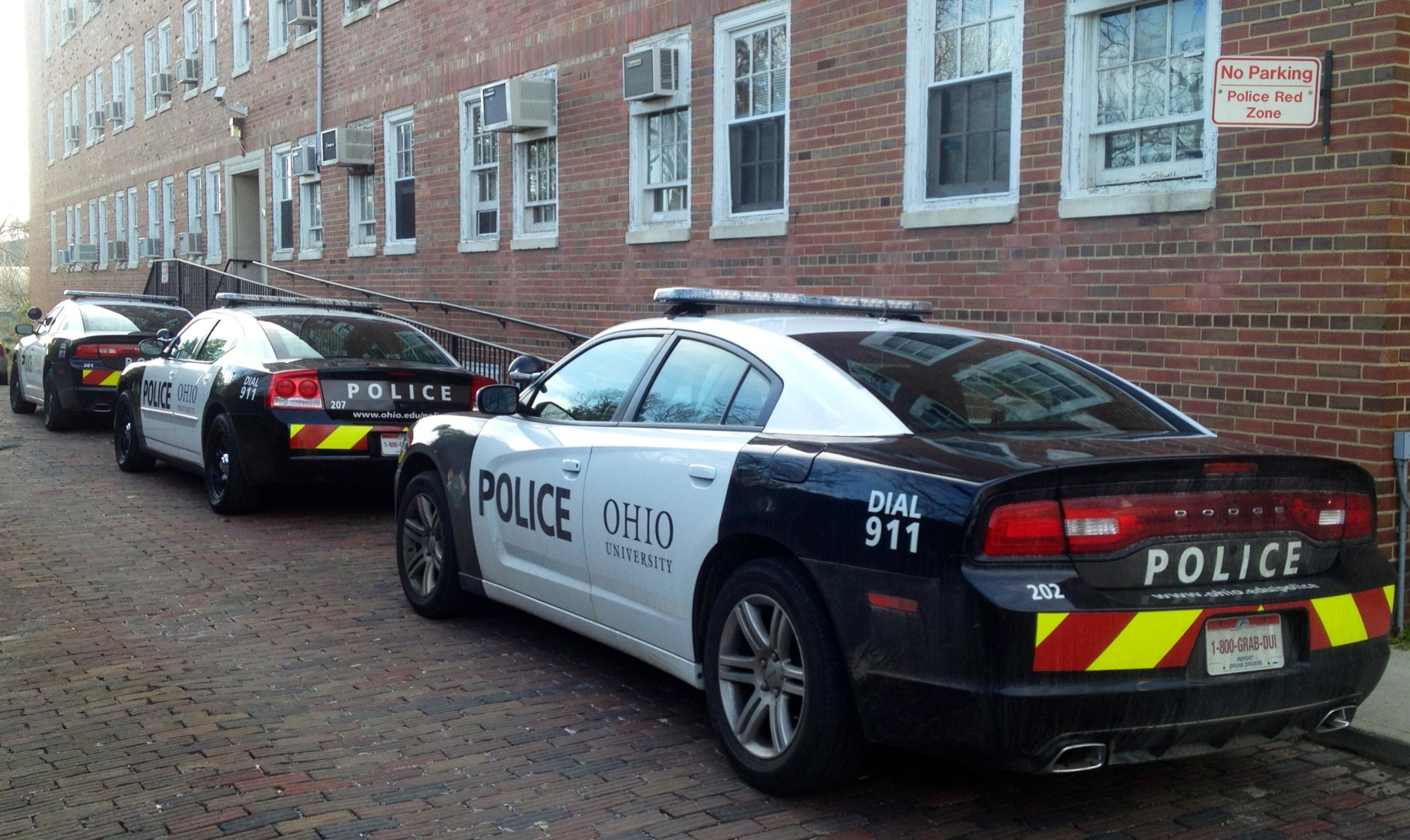 Ohio University Police Cruisers